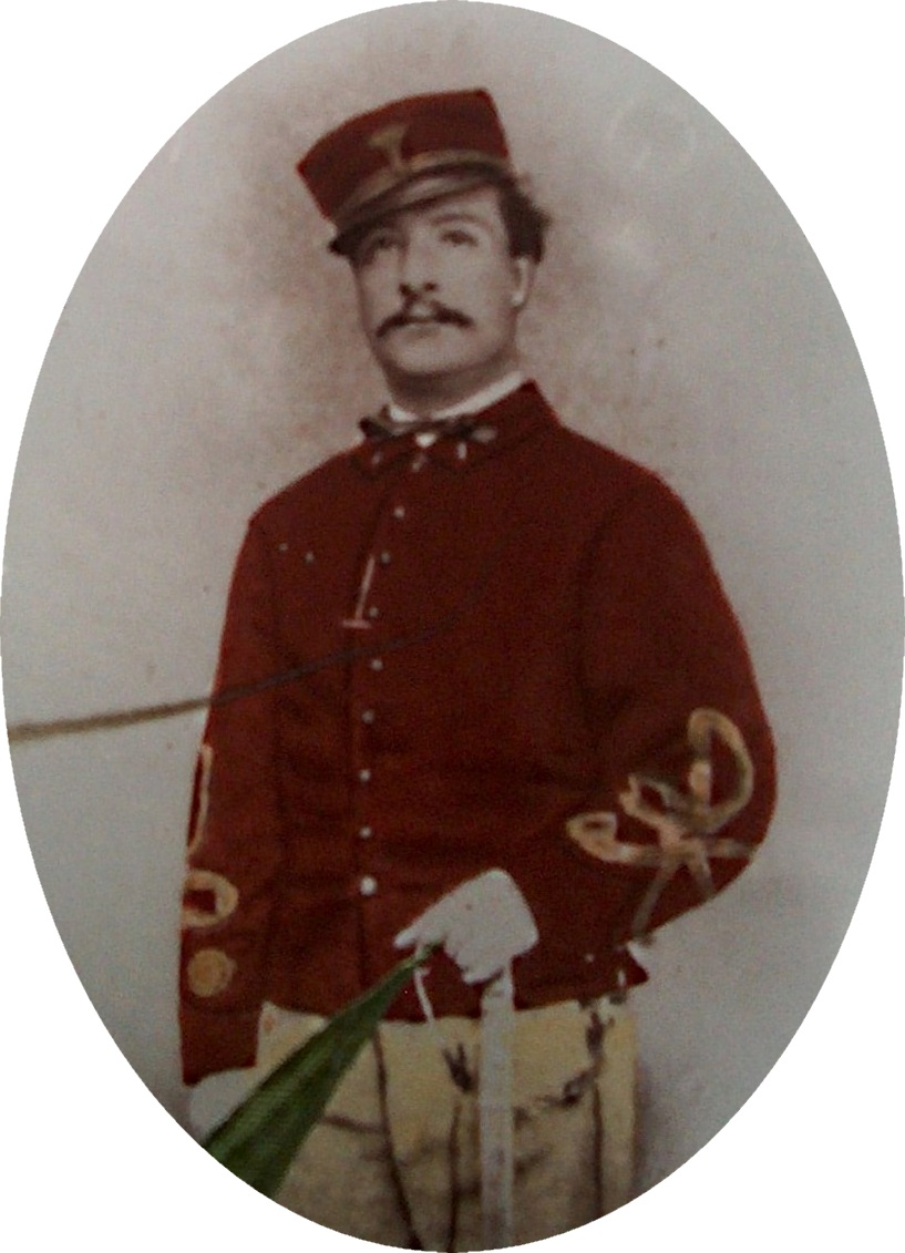 19th-century portrait of Luigi Maccaferri (1834-1903), engineer and patriot from Italy